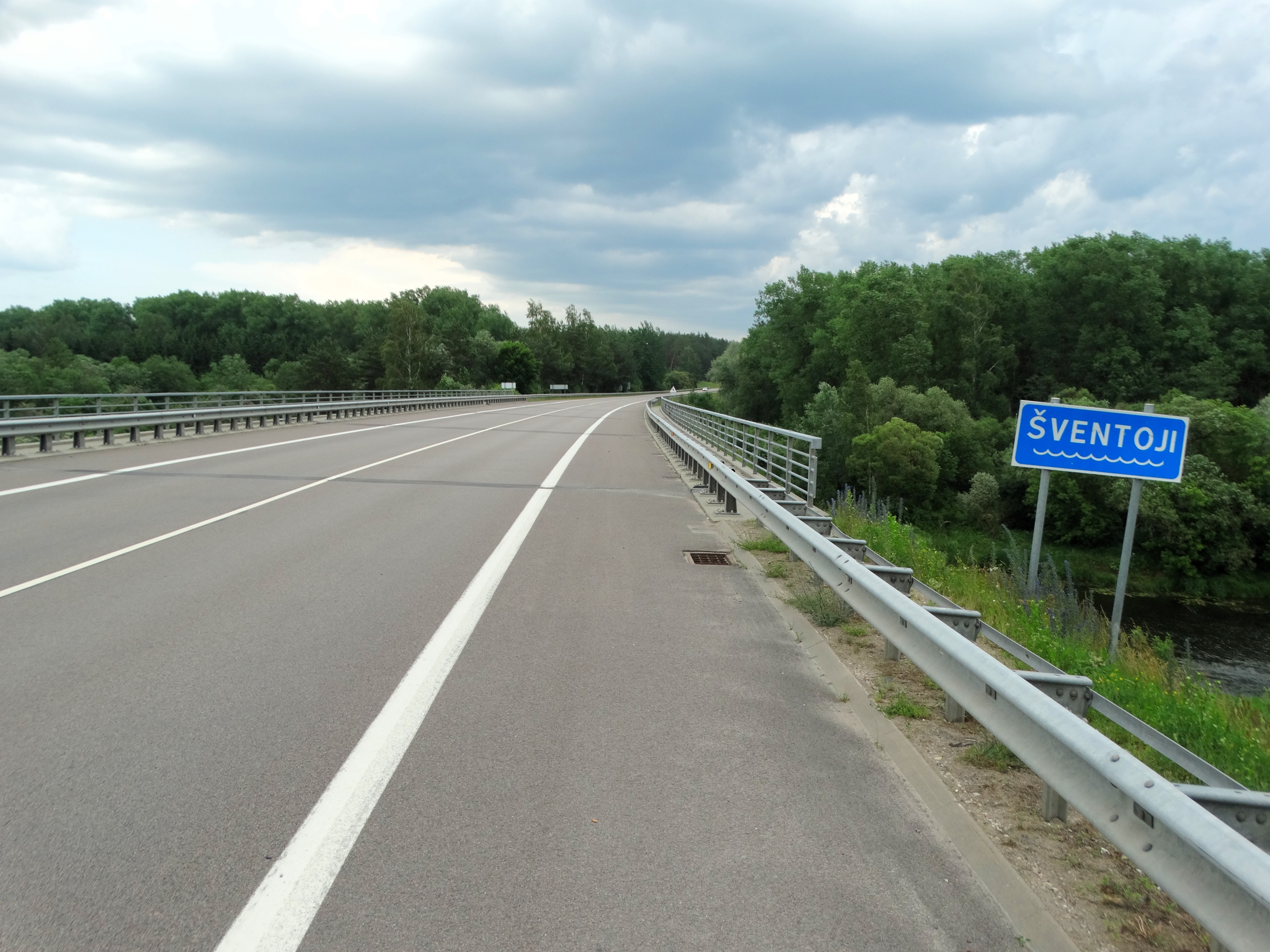 Bridge on Šventoji River, Radiškis, Ukmergė district, Lithuania